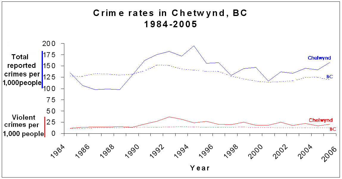 trend in crime